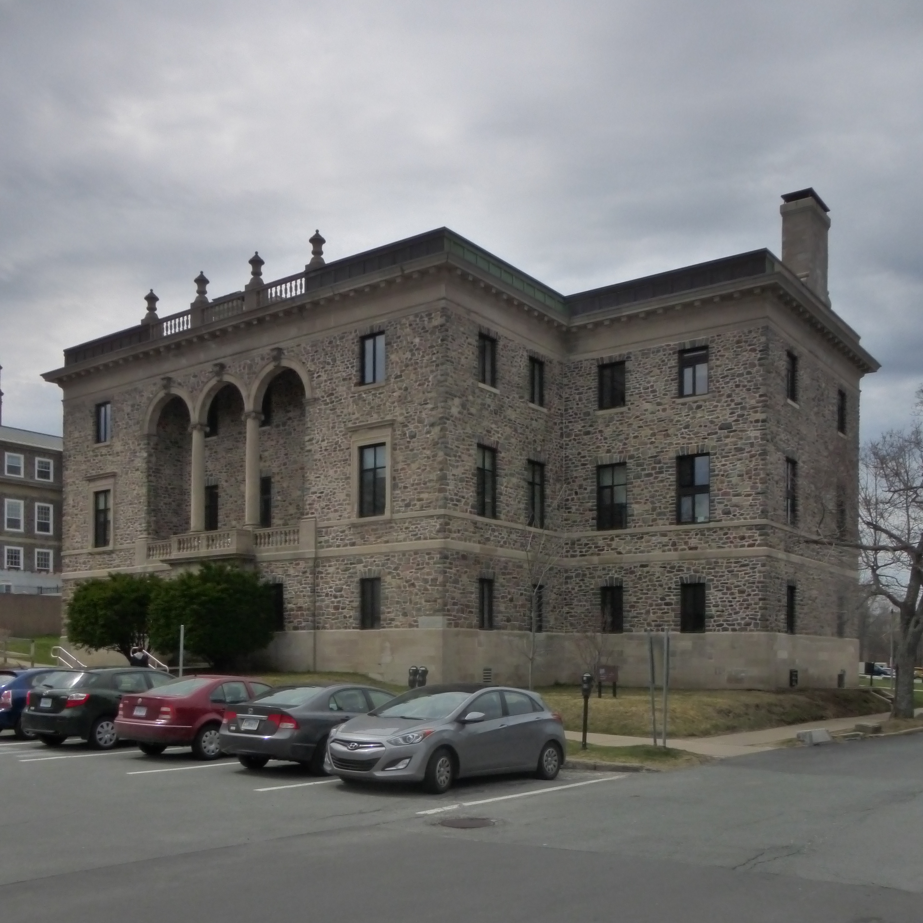 Chase building at Dalhousie University. It was originally built as the provincial archives building. Designed by Andrew R. Cobb and completed in 1929, it was the first provincial archives building in Canada.